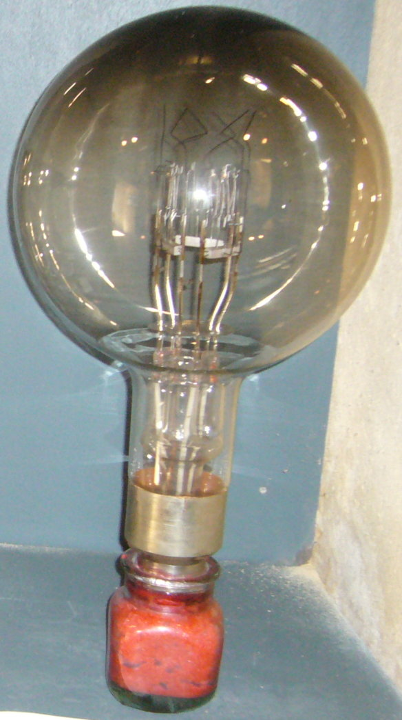 Eckmühl lighthouse's old bulb.